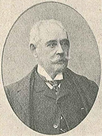 Alfred WAhlberg (1834-1906), Swedish landscape painter.